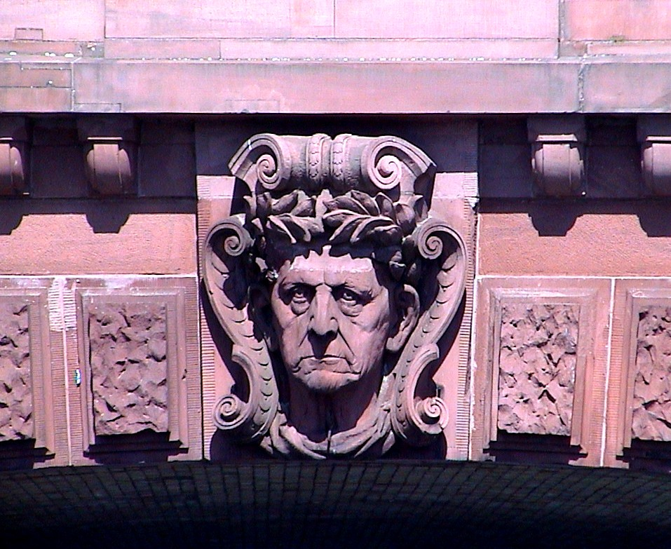 Sculpture of Helmut Karl Bernhard von Moltke at the middle arch of Moltkebrige in Berlin, Germany